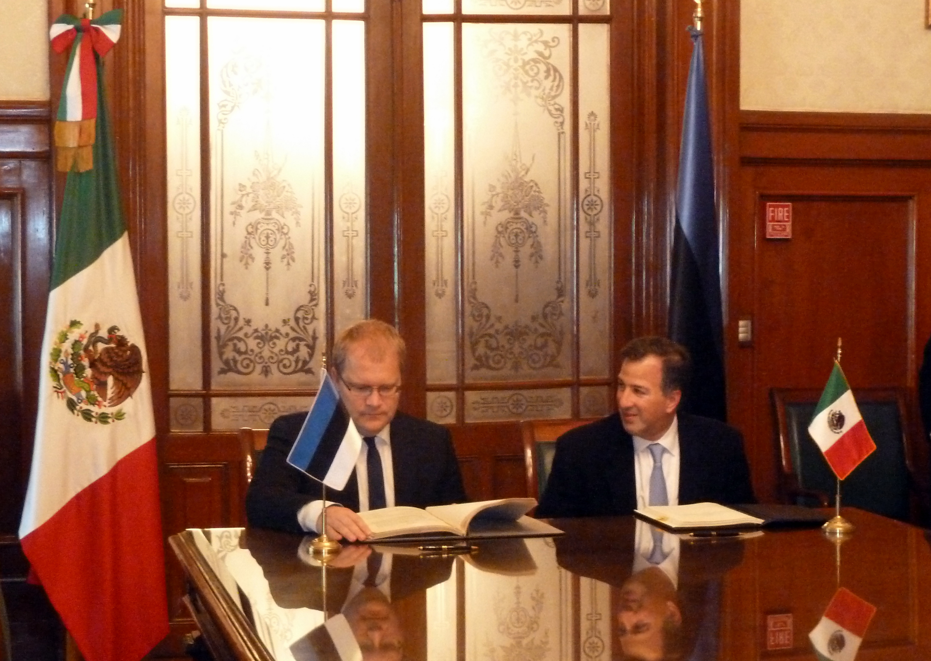 Foreign Minister Paet signed an agreement between Estonia and Mexico for the avoidance of double taxation and prevention of fiscal evasion.